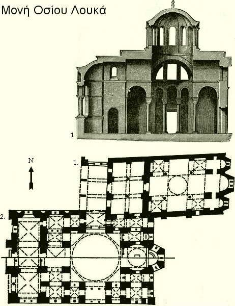 Churches of Hosios Loukas (plan)